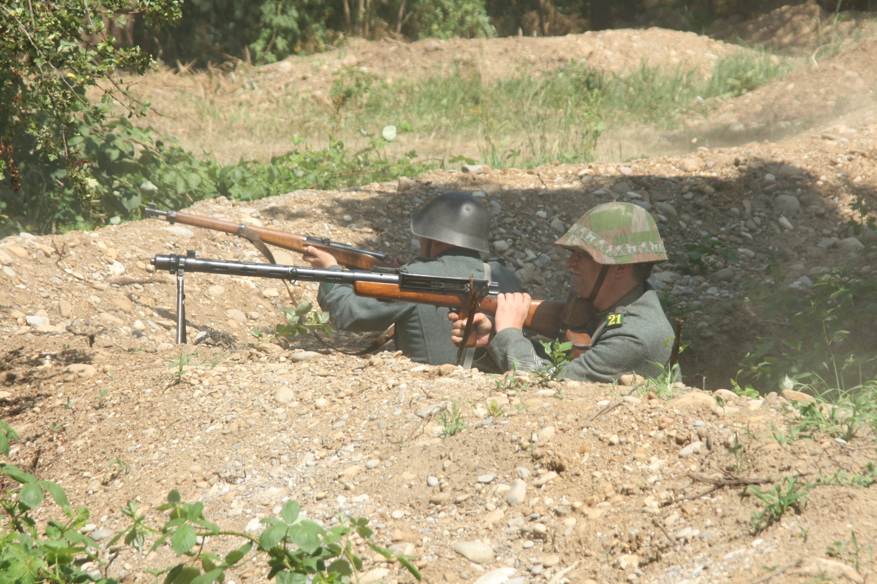 6. IMFT in Full-Reuenthal